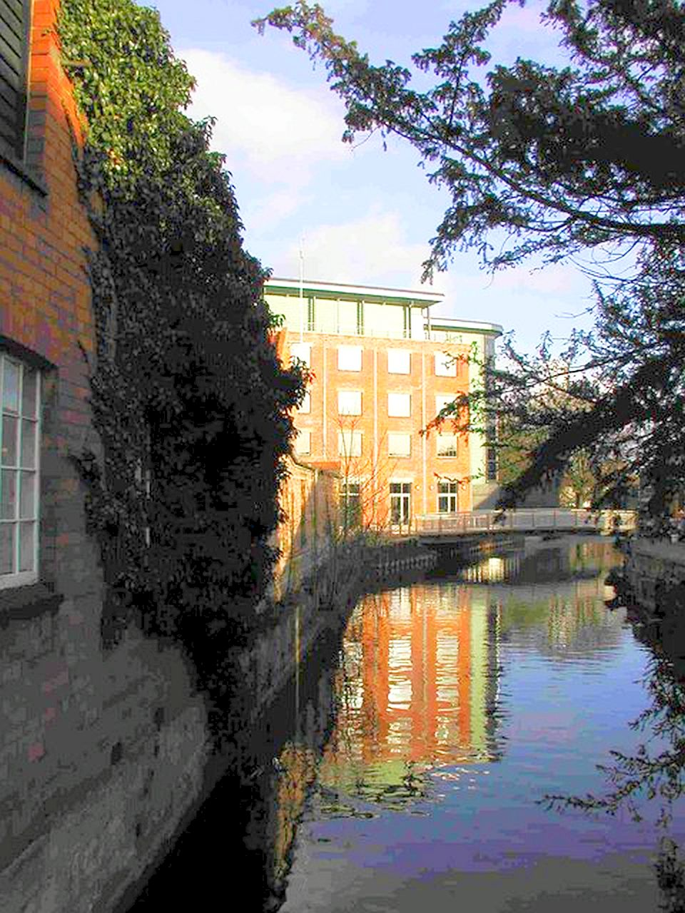 Sleaford Navigation and the Hub. A view, taken from Carre Street, looking down the River Slea towards The Hub Arts Centre.